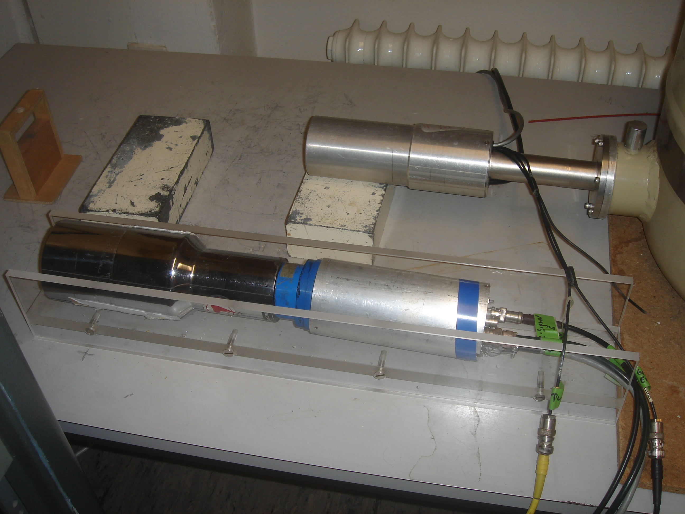 Setup for a gamma spectroscopy experiment: germanium detector connected to a cooling dewar, scintillation detector and sample mounting.